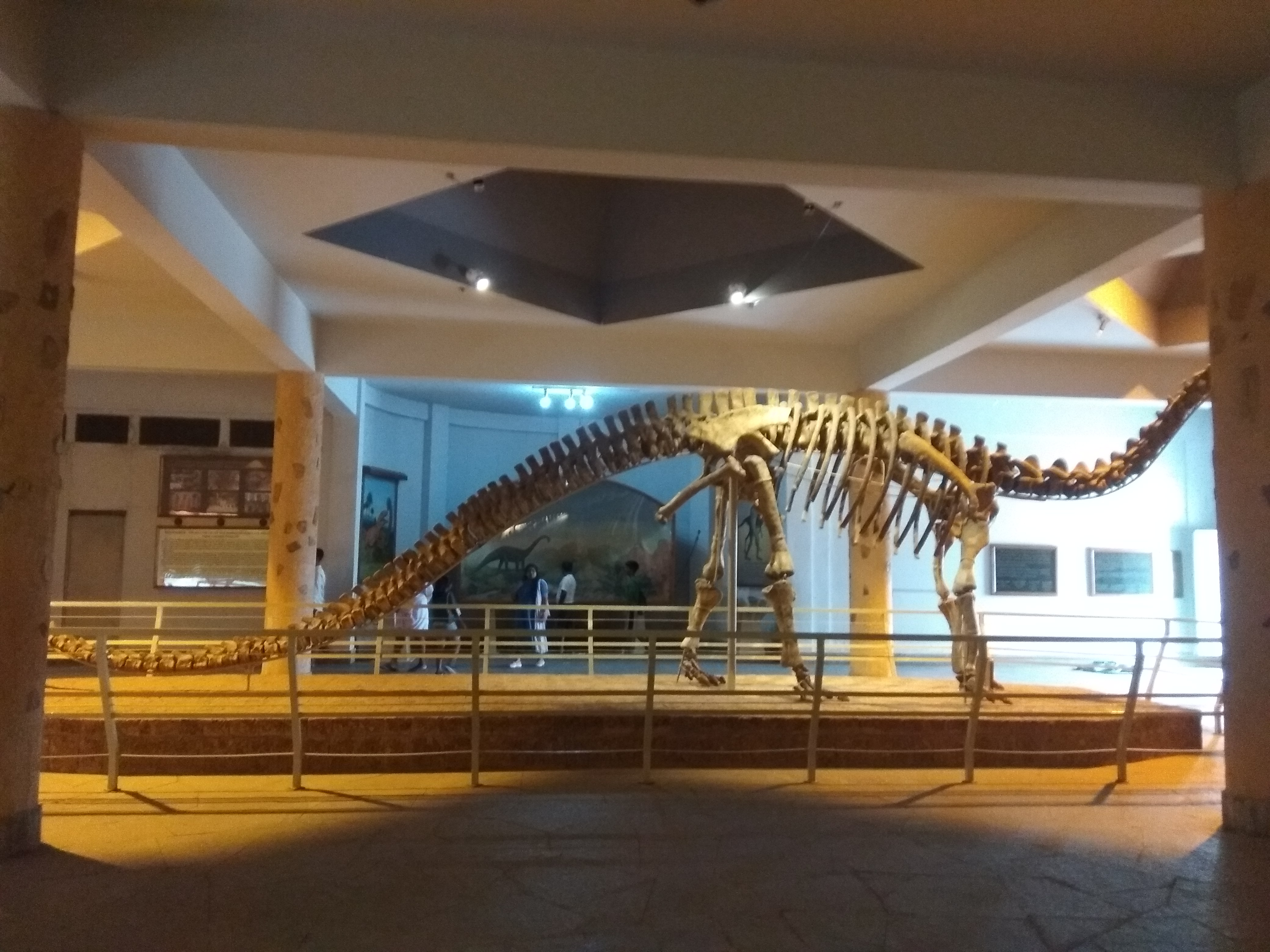 Kotasauraus